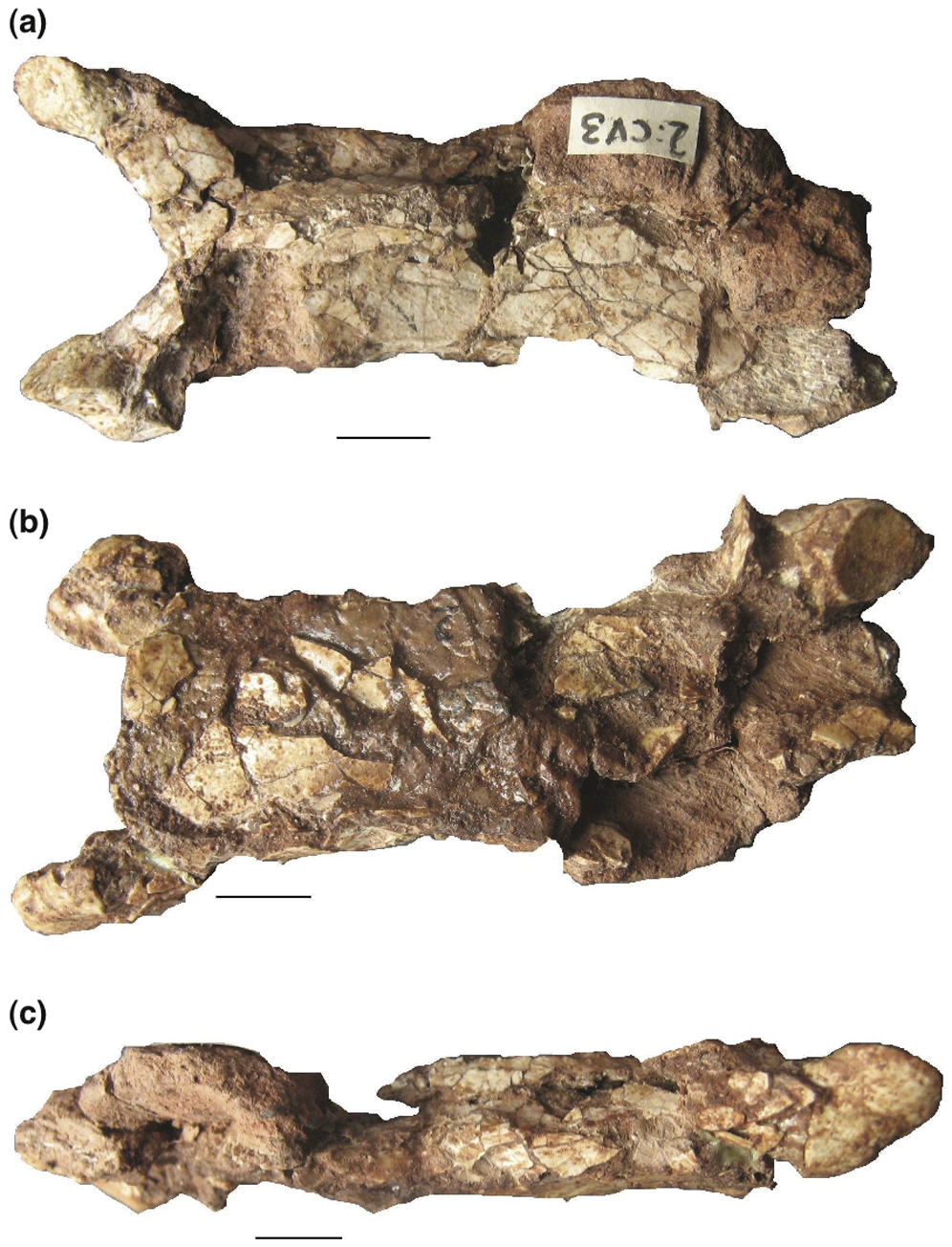 Eurazhdarcho langendorfensis, cervical vertebra three. EME VP 312/1. (a) Dorsal view. (b) Ventral view. (c) Lateral view. Scale bars are 10 mm.